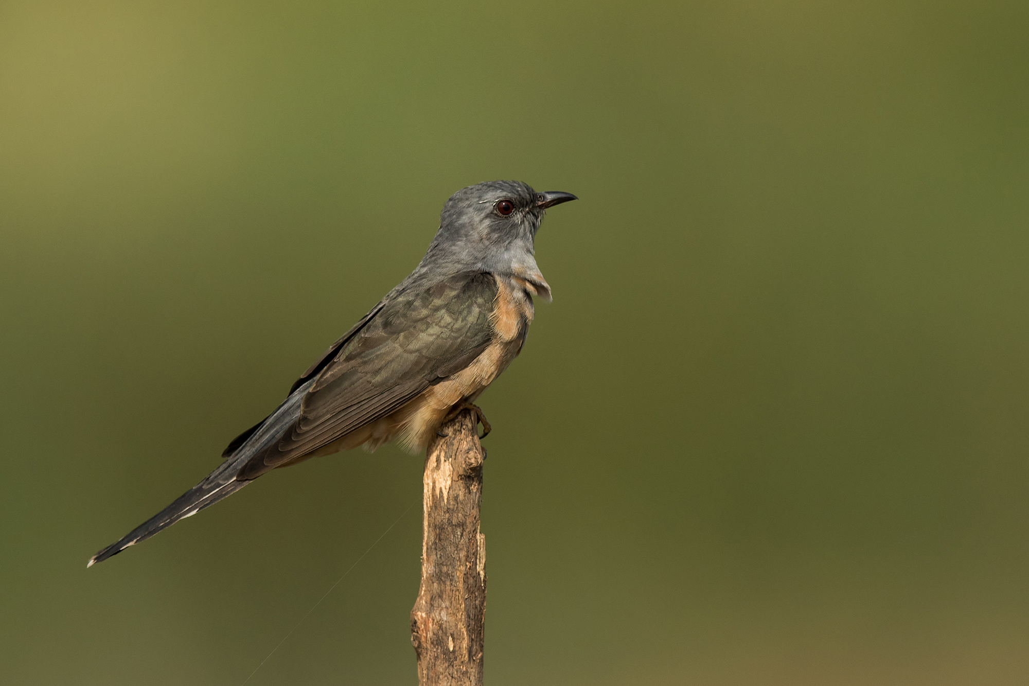 species of bird belonging to the genus Cacomantis in the cuckoo family Cuculidae.